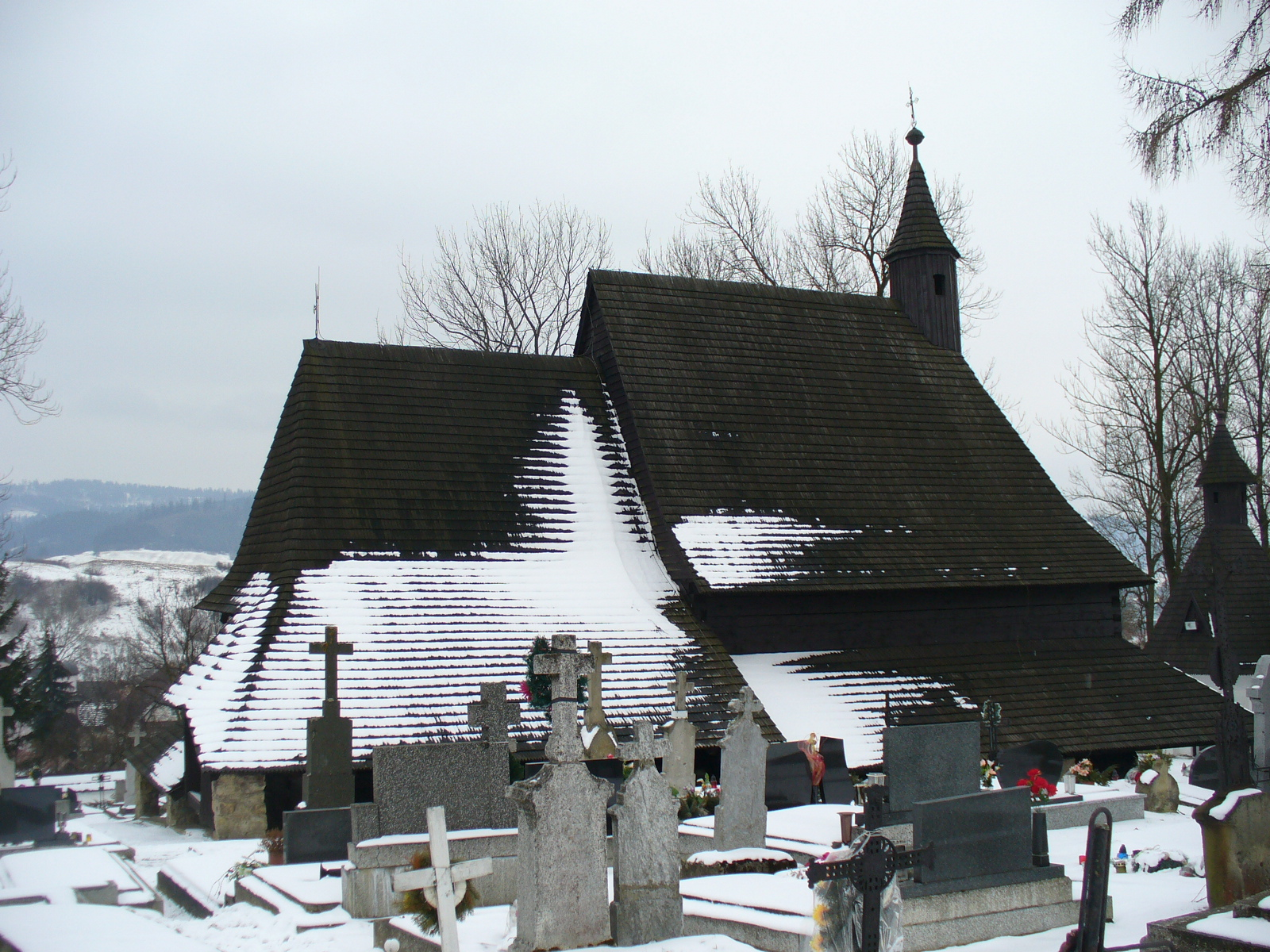 Tvrdošín - wooden church (part of the Carpathian Wooden Churches UNESCO World Heritage Site)